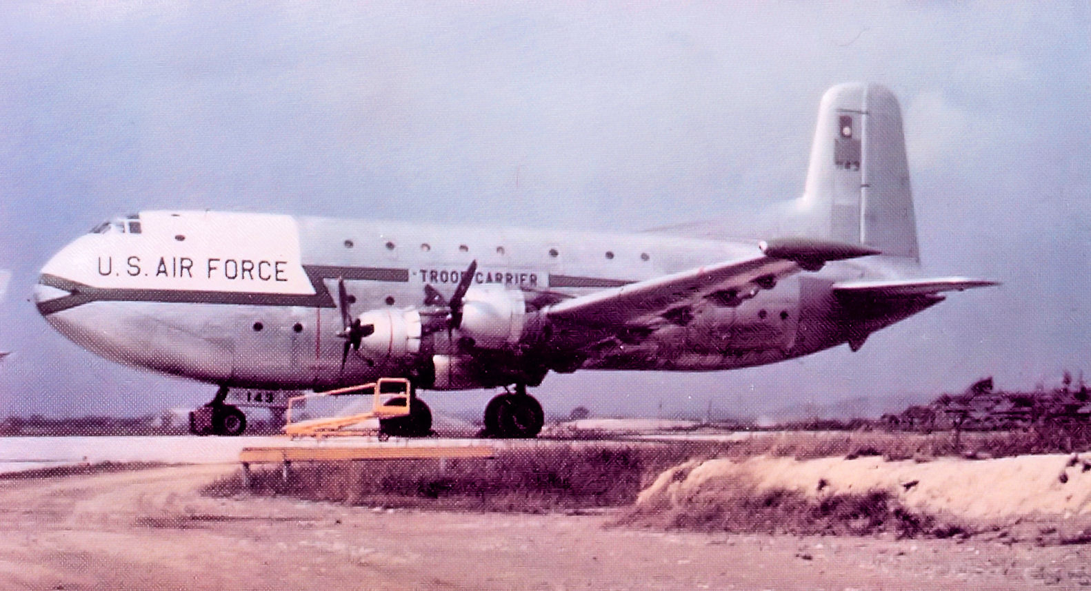 374th Troop Carrier Wing Douglas C-124A-DL Globemaster II 51-143, appears to be at an airfield in South Korea, 1952. Aircraft later converted to C-124C. To MASDC Nov 10, 1969. Declared excess Jan 21, 1970